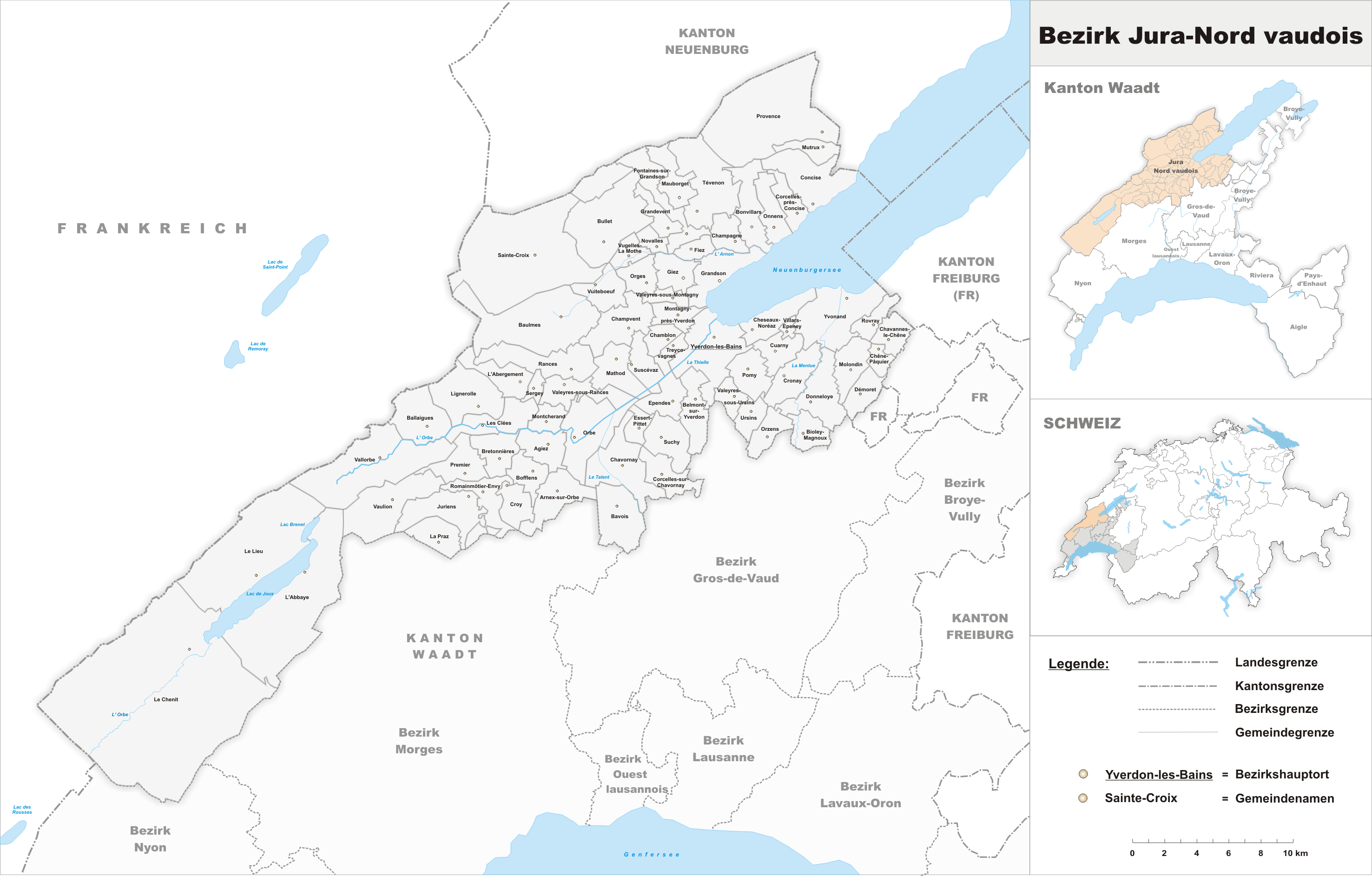 Municipalities of District Jura-Nord vaudois